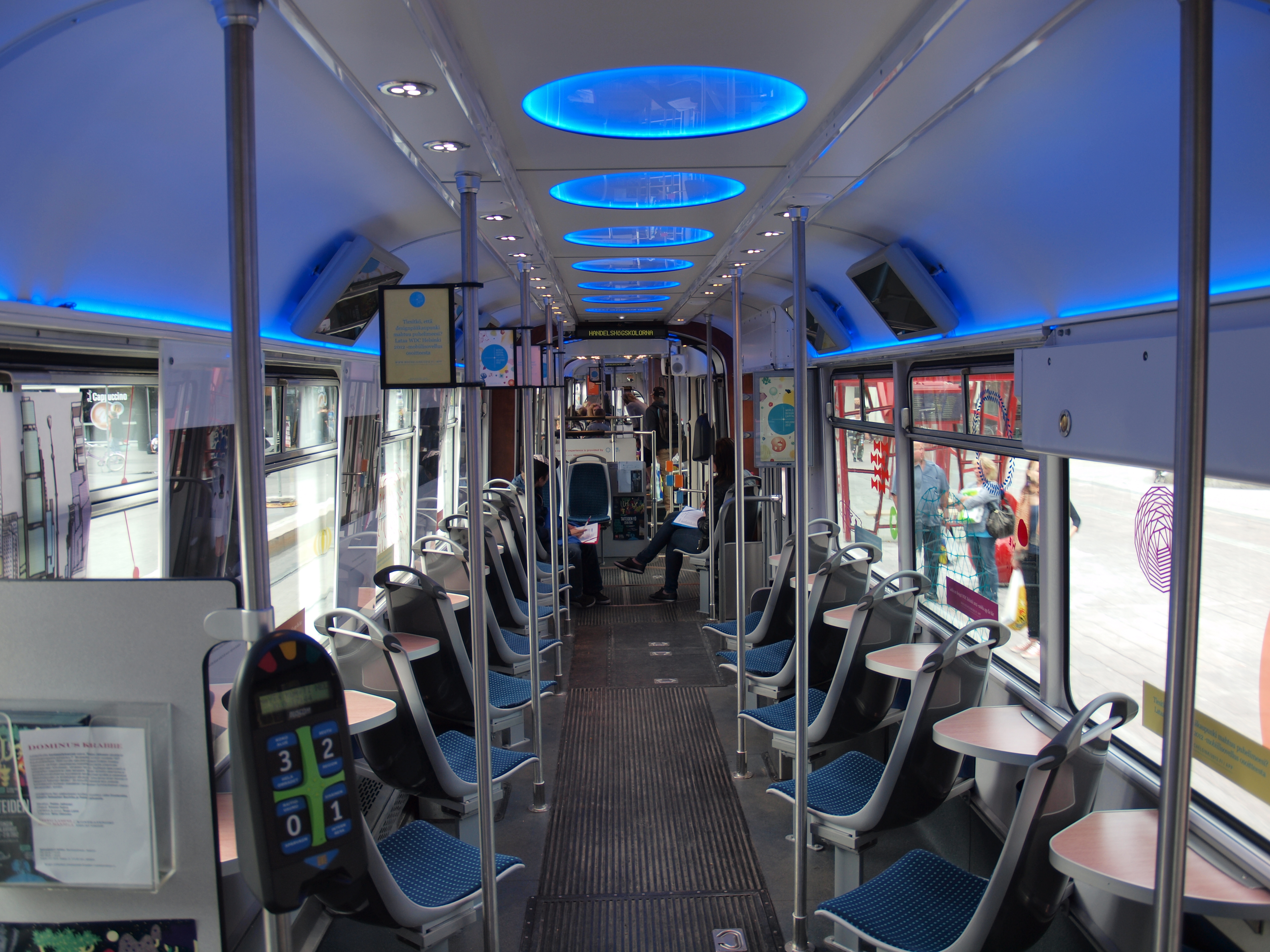 The special Culture Tram of the Helsinki tram network, labelled line 5, from the inside.